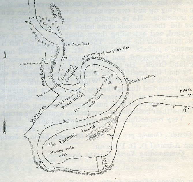 1864 Drawing of Farrar's Island by Naval Scouts to study the defenses of Richmond. From source: "In late 1611 Farrar’s Island was the Henricus settlement meant to replace Jamestown. In late 1864 it was “the front.” This map, dated November 16, 1864, was drawn by U.S. Navy scouts studying the defenses in Henrico County."